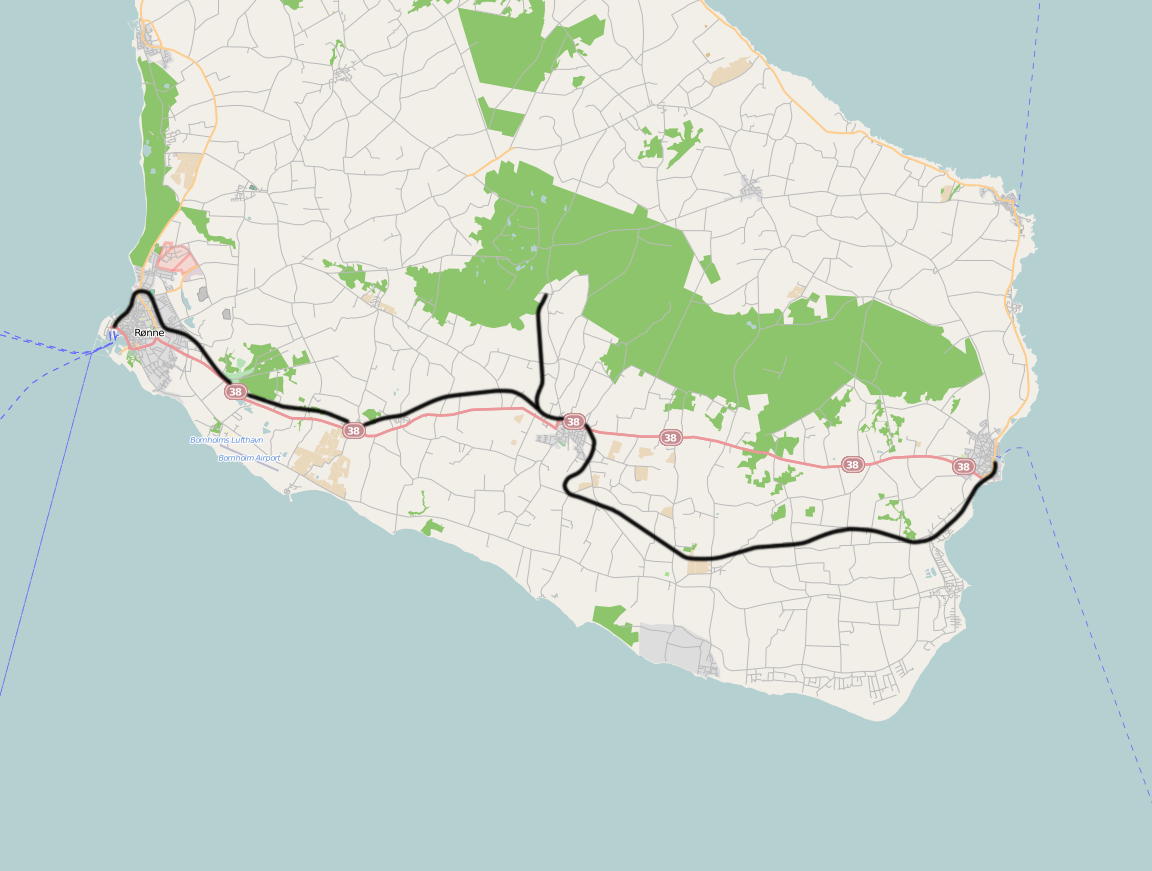 Railway line Rønne - Nexø